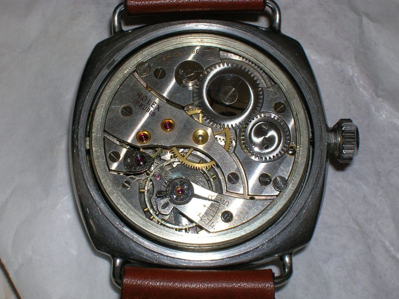 Rolex 618 movement inside a Panerai Radiomir 3646. Watch and movement identified using information from this source.